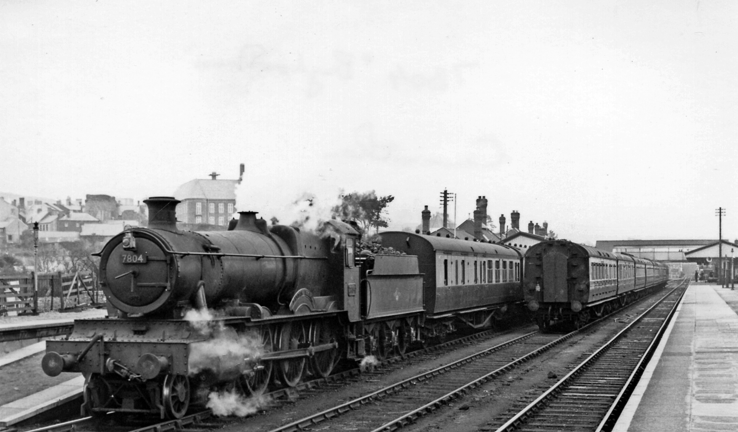 A stopping train for Milford Haven waiting in Carmarthen station. View northward - at that time towards Aberystwyth but since 2/65 the station has been a terminus; ex-GW South Wales main lines, reversing at Carmarthen. (See also SN4119 : Stopping train from Swansea at Carmarthen station). The train is headed by 4-6-0 No. 7804 'Baydon Manor' (built 2/38, withdrawn 9/65).